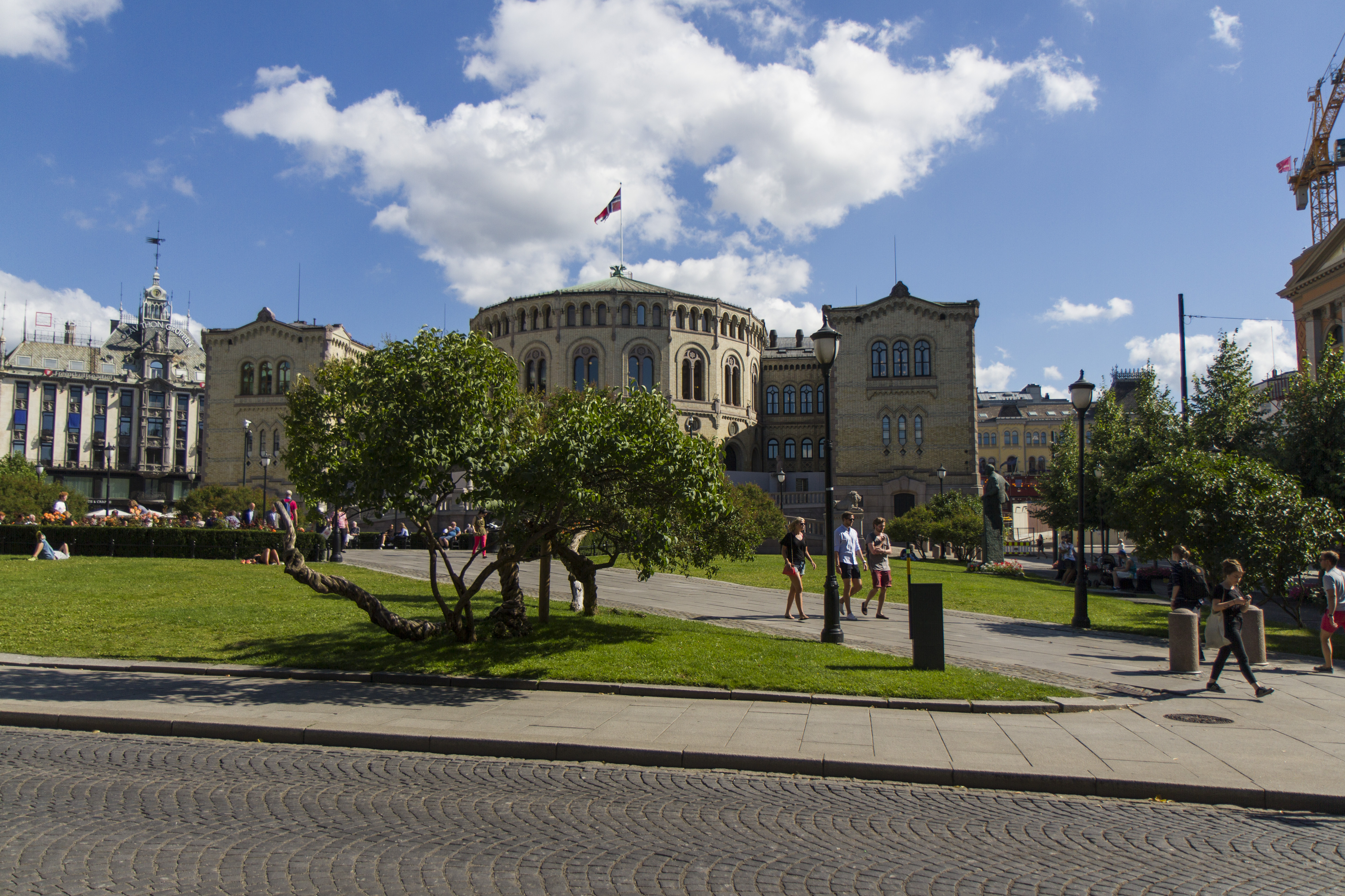 The Storting in Oslo